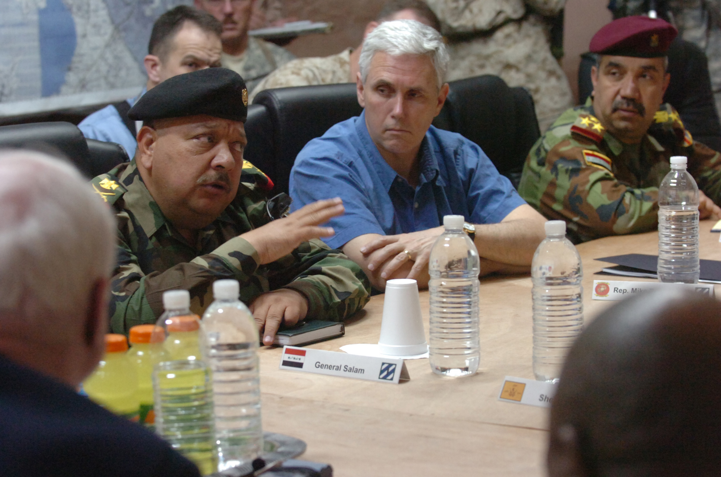 (From left) Maj. Gen. Abdul Salam, Anbar province police chief, talks about security conditions in the province as Rep. Mike Pence, R-Ind., and Brig. Gen. Amir Jasam al Dulaimy, 7th Iraqi Army Division deputy commanding general, look on April 2. Pence was part of a congressional delegation to Iraq that also included Sens. John McCain, R-Ariz., Lindsay Graham, R-S.C., and Rep. Rick Renzi, R-Ariz.(U.S. Army photo by Sgt. Curt Cashour, MNC-I Public Affairs)